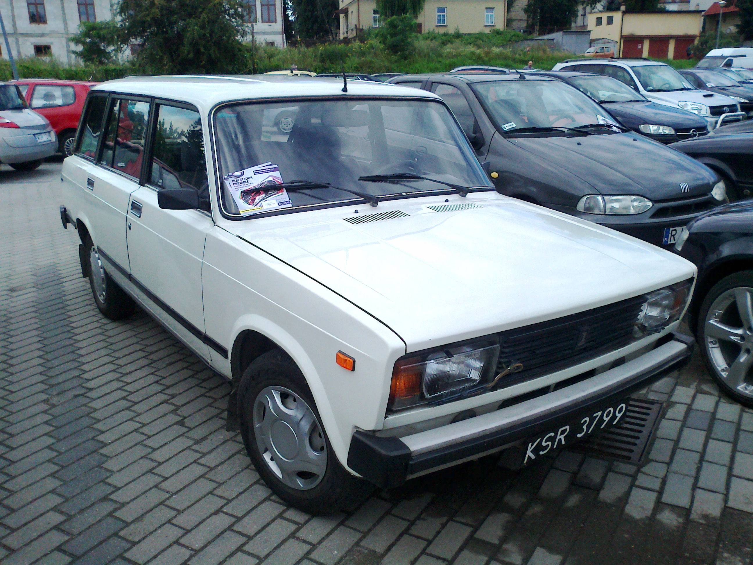 White Lada 21043 1500 station wagon seen in Jasło, Poland.